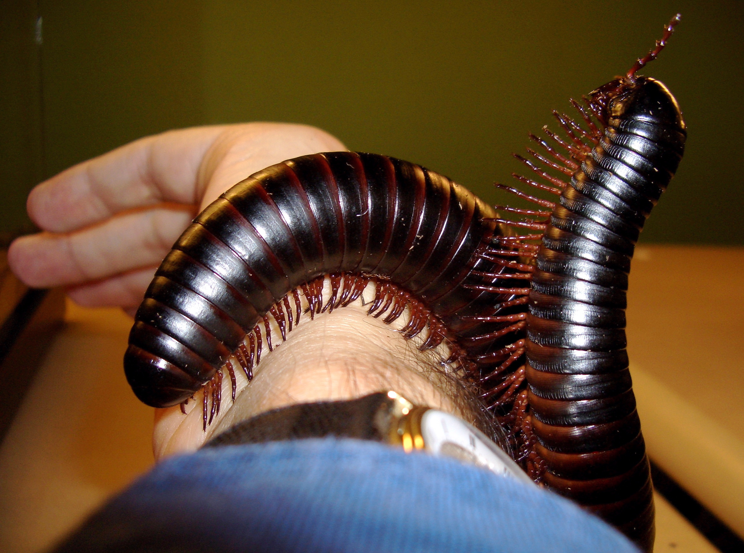 Each leg is bristling with hinge spines, forming a distributed foot.